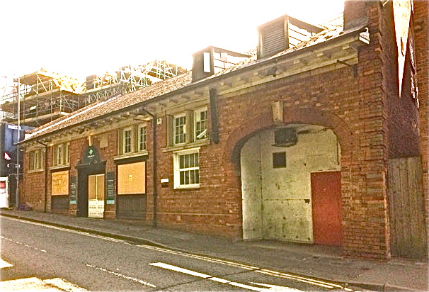 Former saleroom, Beaumont Fee, Lincoln. Architect Henry Herbert Dunn. Built for J A Cox,1912. Later Big Wok, Chinese restaurant.